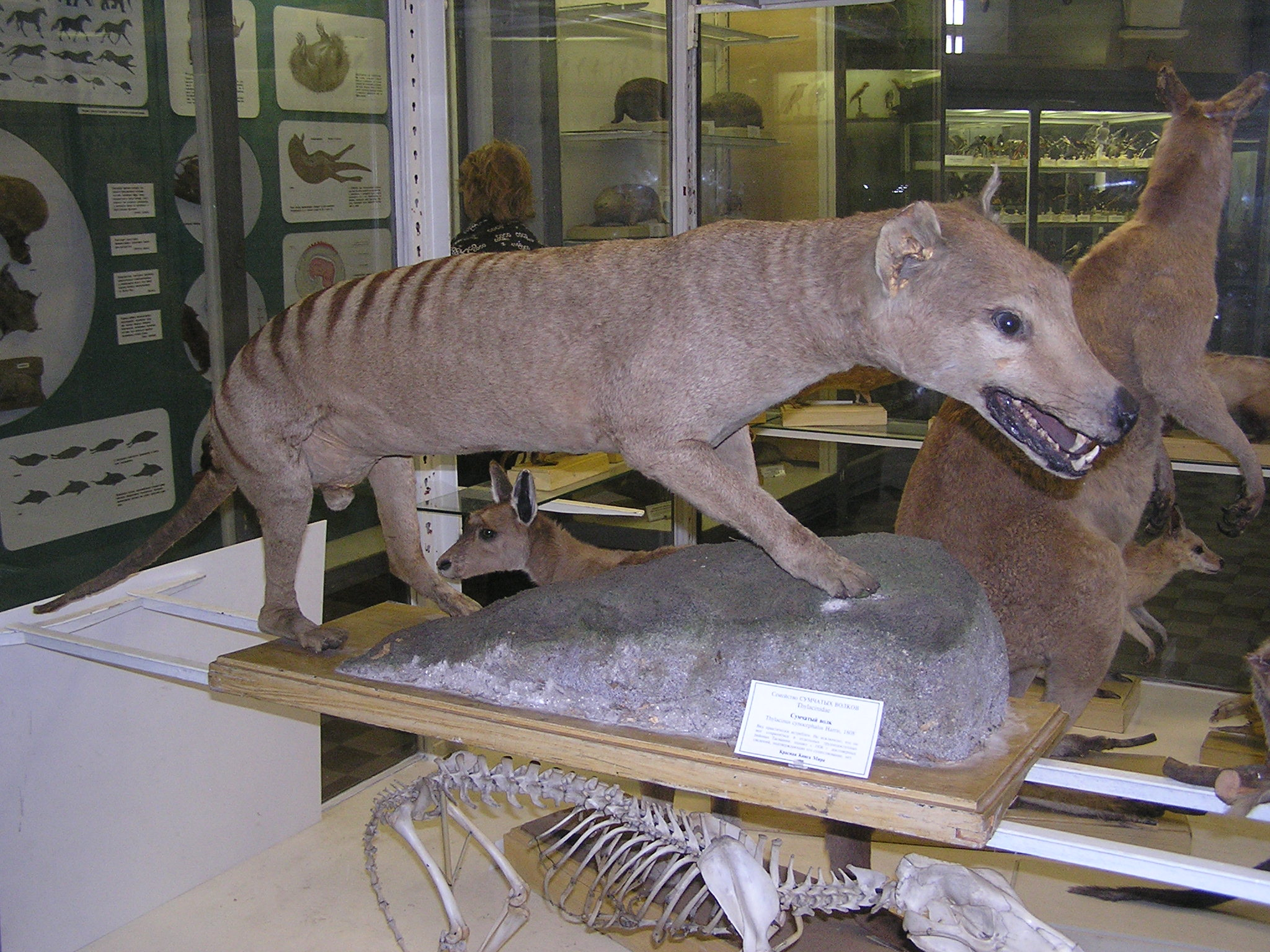 Tasmanian wolf (Thylacinus cynocephalus). Photograph shot in Museum of Zoology (Saint Petersburg)